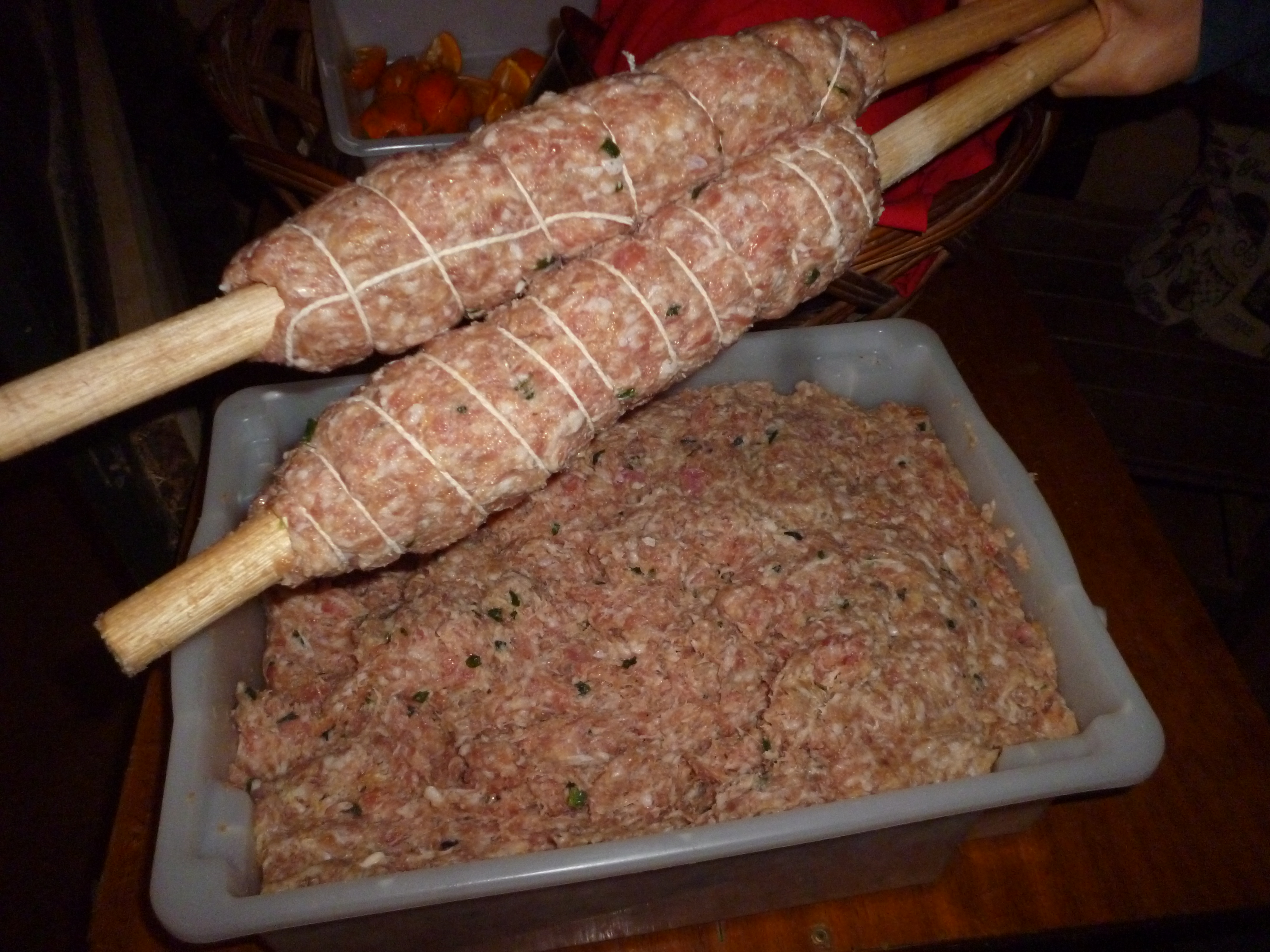 Espeto de Rojão is a regional cultural tipic food from Ribeirão Grande city, in São Paulo's State, Brazil